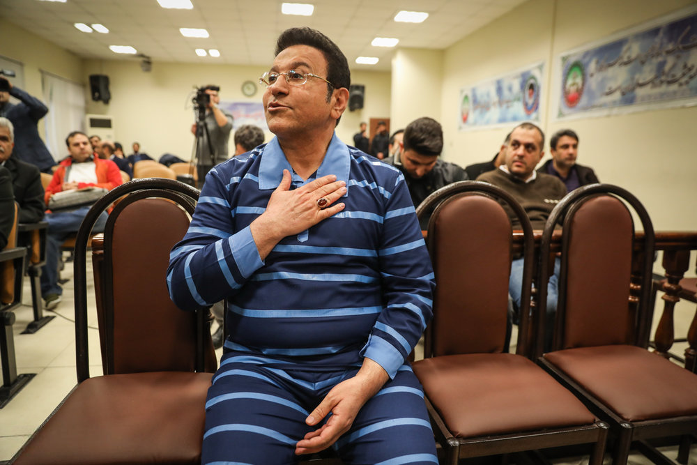 Hossein Hedayati